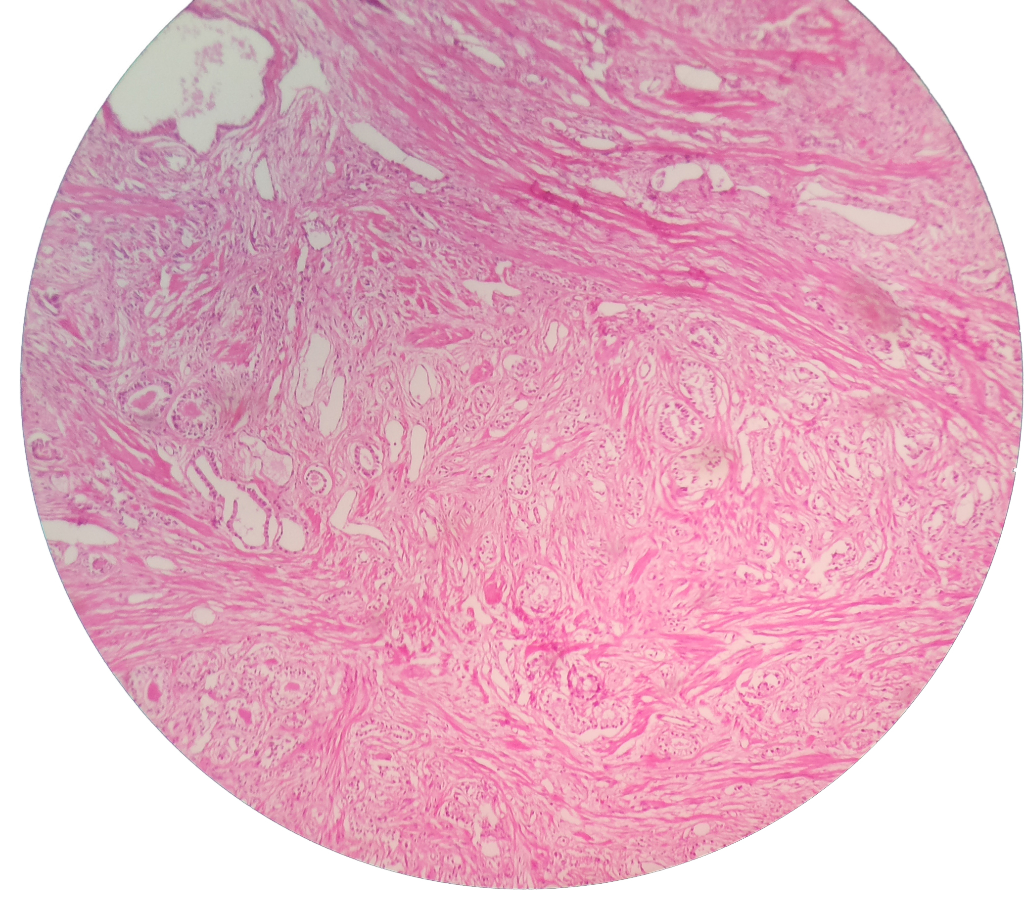 Benign prostate hyperplasia H&E stained microscopy at low power